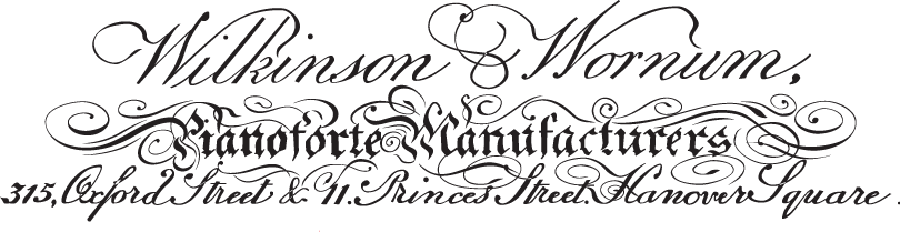 Text and ornamentation from original printed manufacturers' label pasted inside Wilkinson and Wornum cottage upright built in London ca.1811